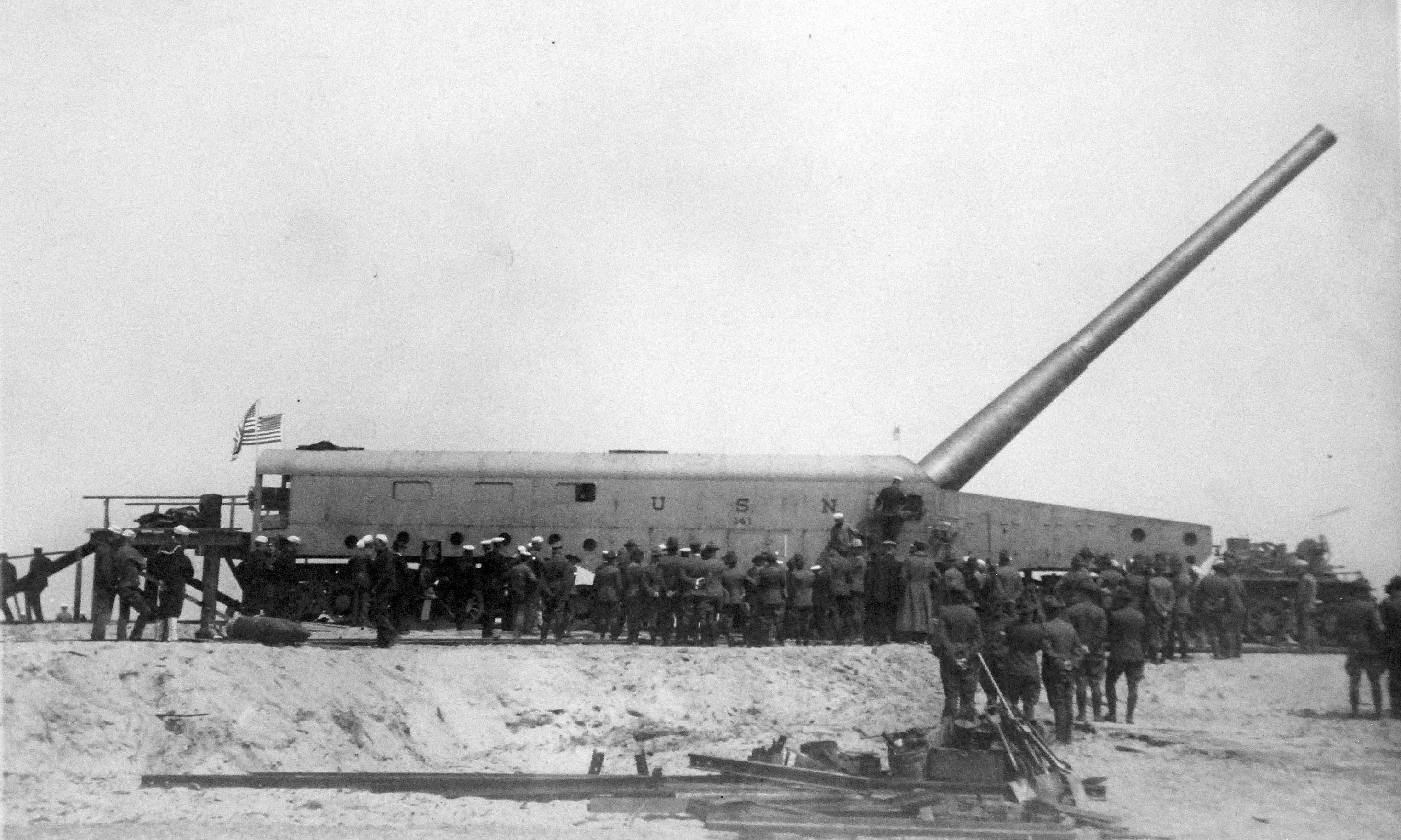 Lot-5363-7: U.S. Navy 14” Naval Railway Battery MK1. Shown: Inspection at Sandy Hook, Elevation 45 degrees. Secretary of the Navy Josephus Daniels Collection. U.S. Army Signal Corps photograph, on the in the collections of the Library of Congress. (2016/04/29).